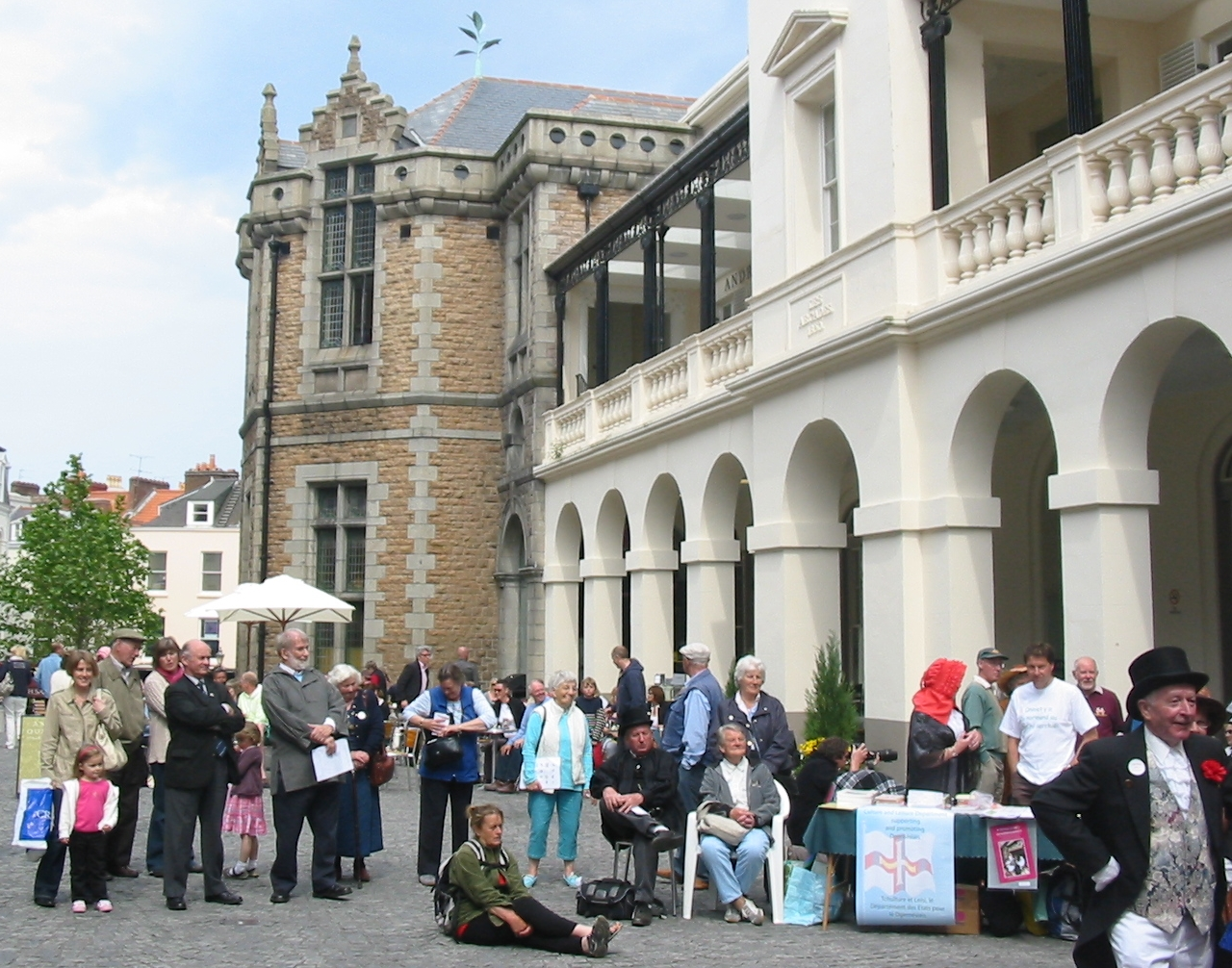 Fête Nouormande - Fêtes des Rouaisouns, Saint Peter Port, Guernsey, 23 May 2009